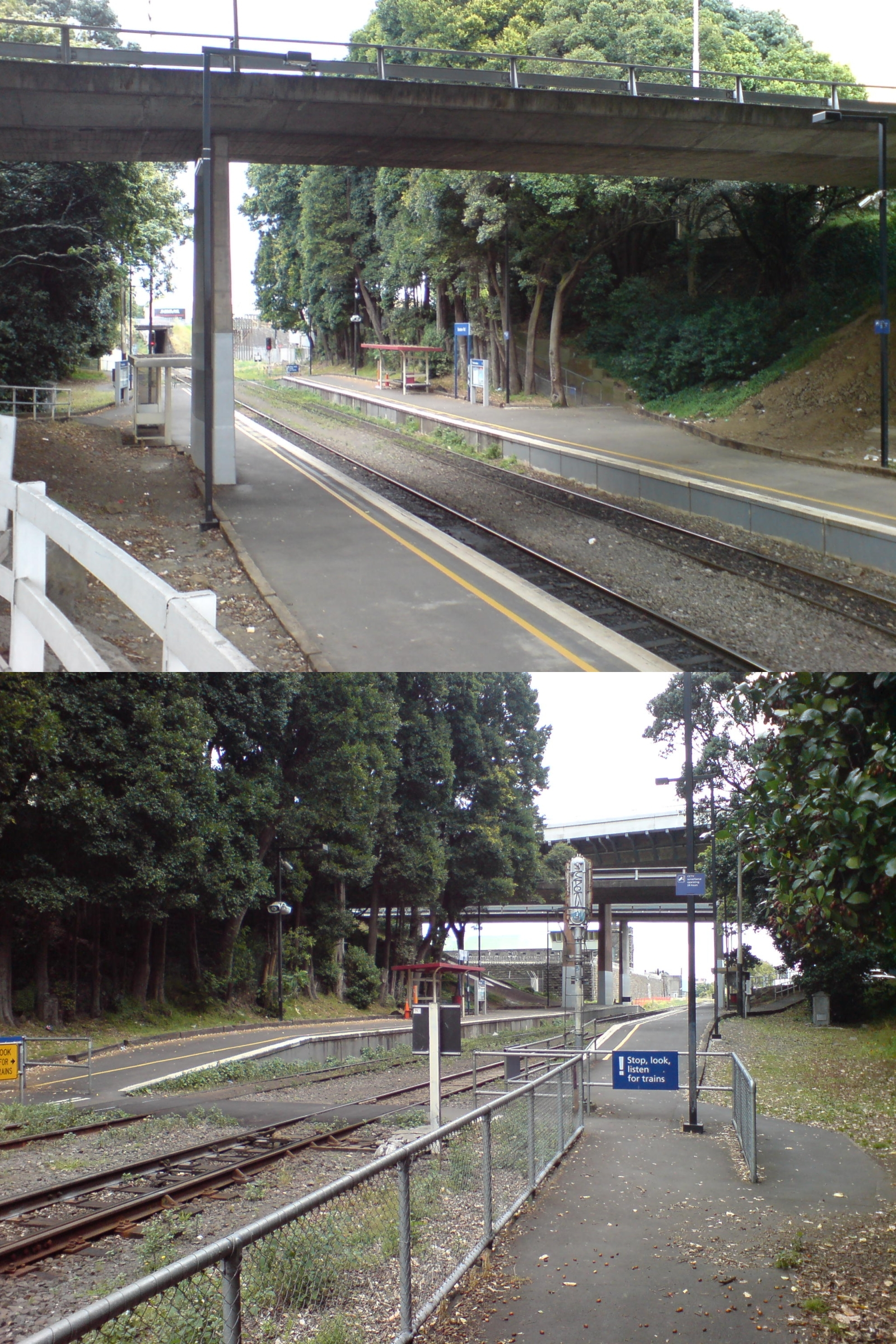 The former Boston Road Train Station in Auckland City, New Zealand.